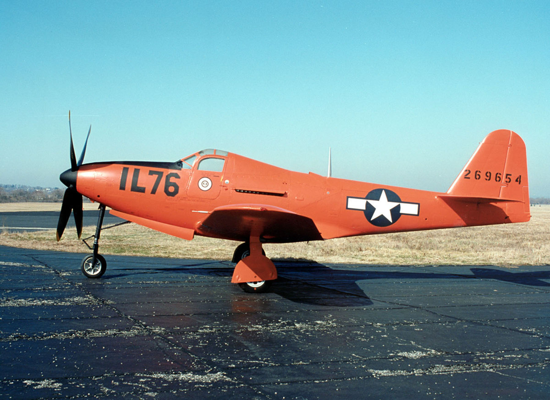 DAYTON, Ohio -- Bell P-63E Kingcobra at the National Museum of the United States Air Force.